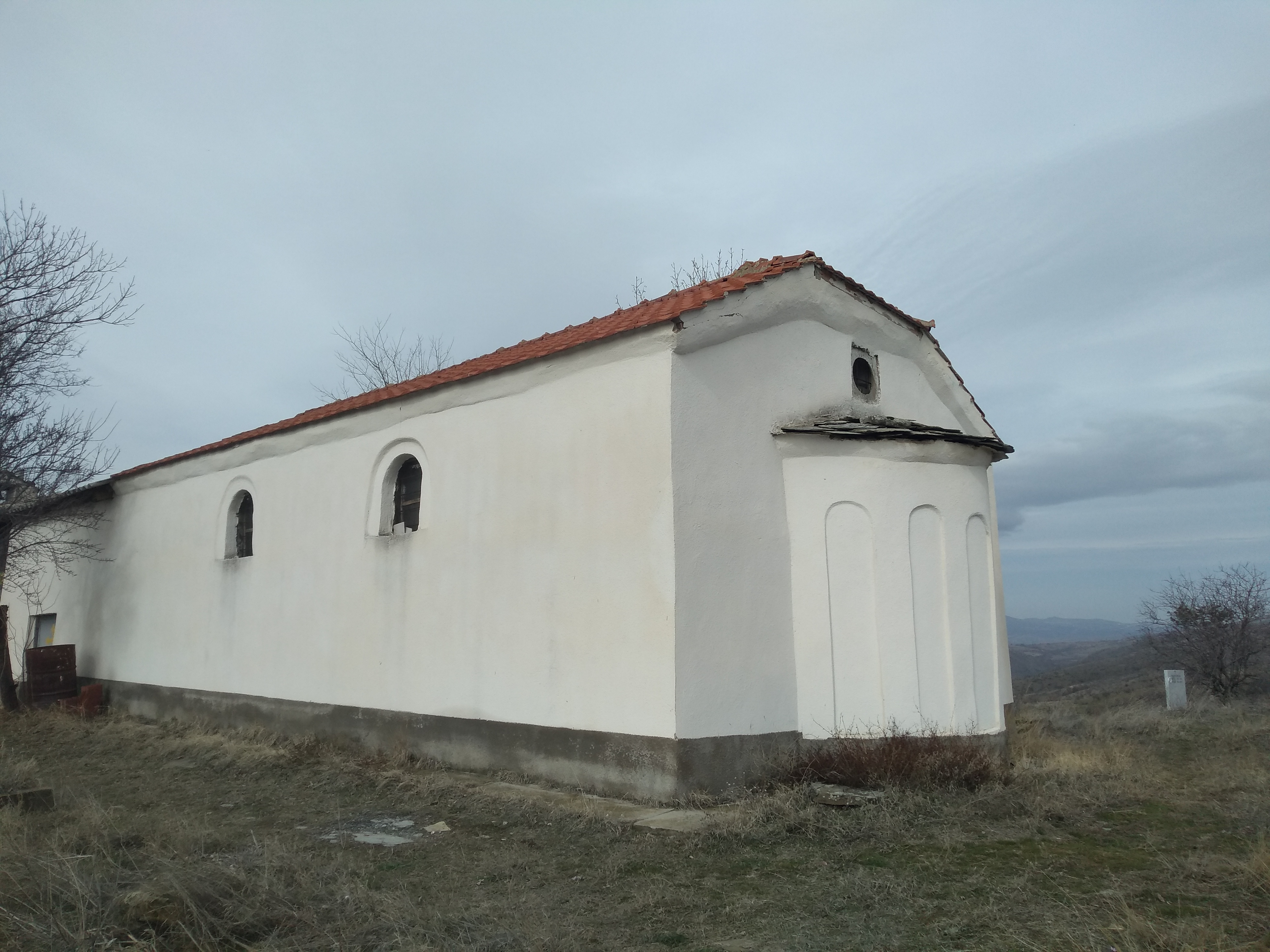 The church of St. Elijah in Dolno Vranovci, Macedonia